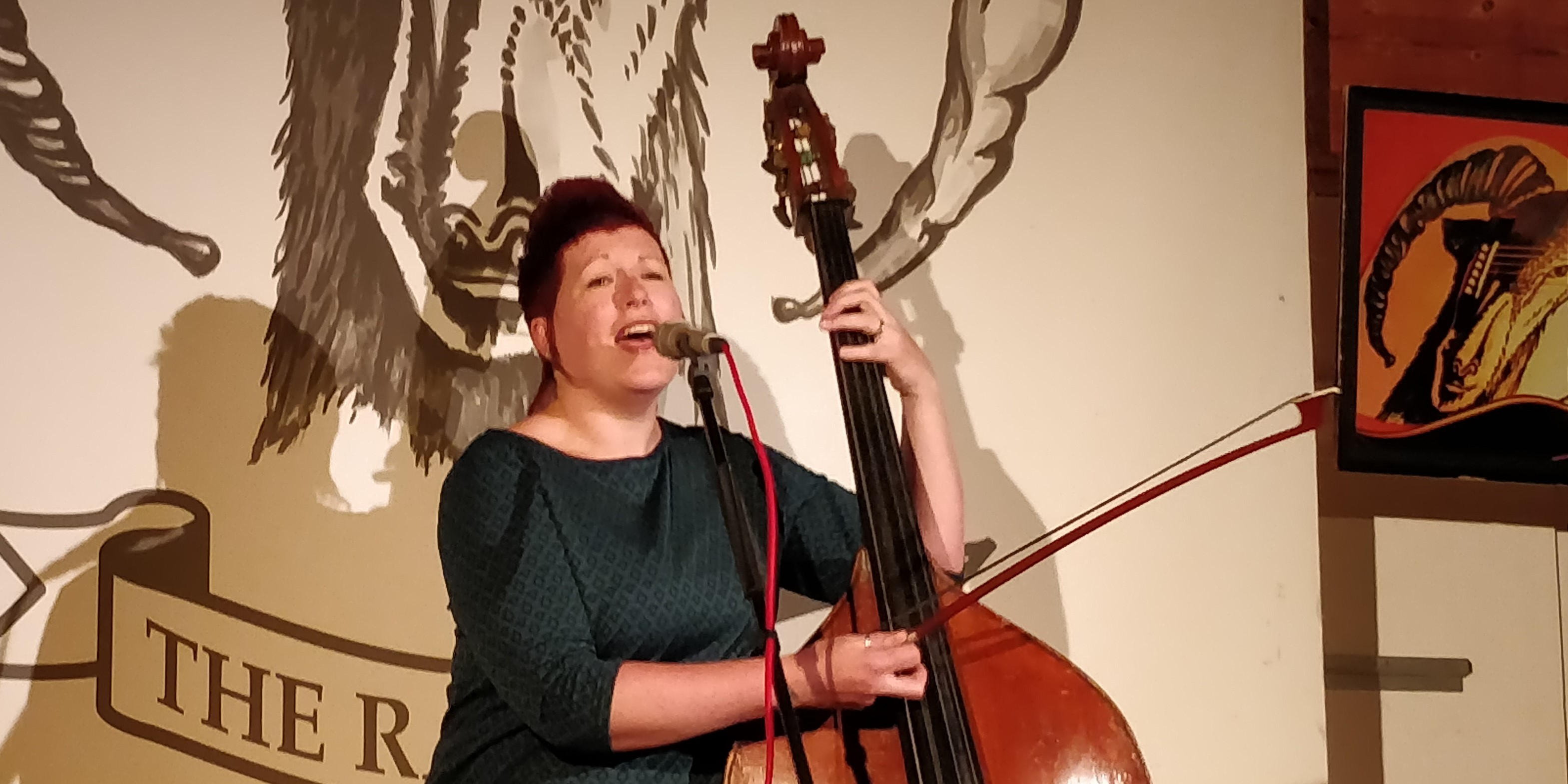 Folk singer and double bassist Miranda Sykes performing at the Ram Folk Club in Thanes Ditton, Surrey, England, on 26 April 2019